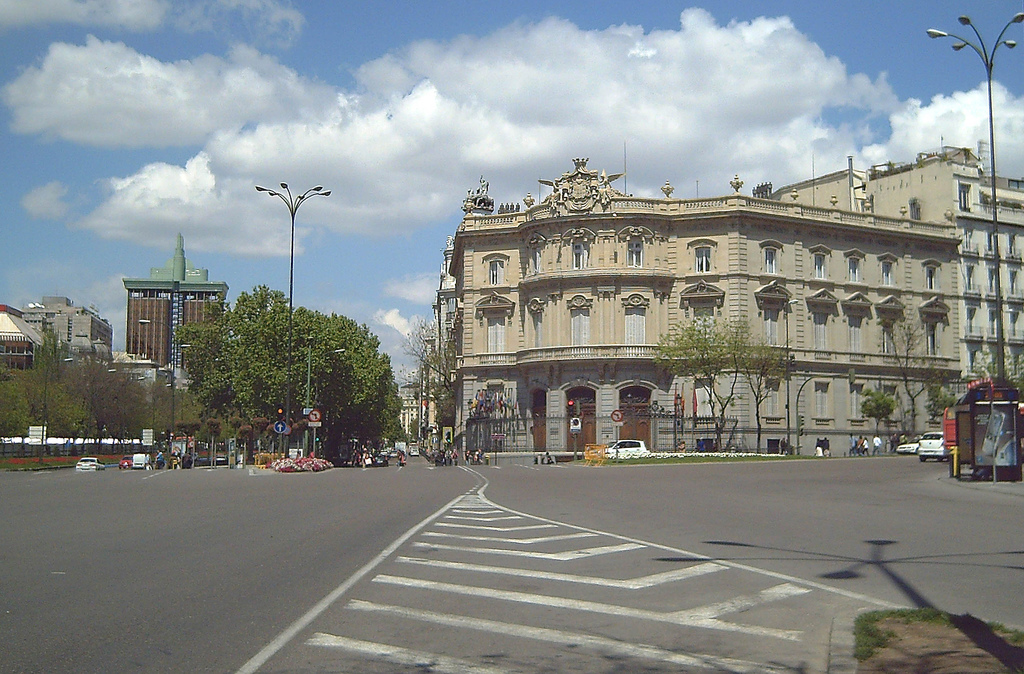 Partial view of the Plaza de Cibeles (square) in Madrid (Spain). At the left, Paseo de Recoletos (boulevard). At the right, Palacio de Linares (1873–1884), Casa de América (House of the Americas) headquarters.